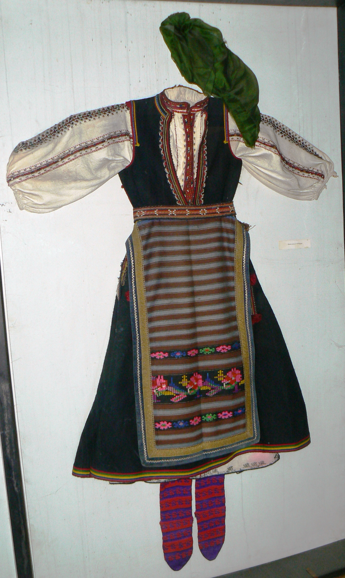 Female costume from village Malka Zhelyazna, exhibit of the Teteven History museum